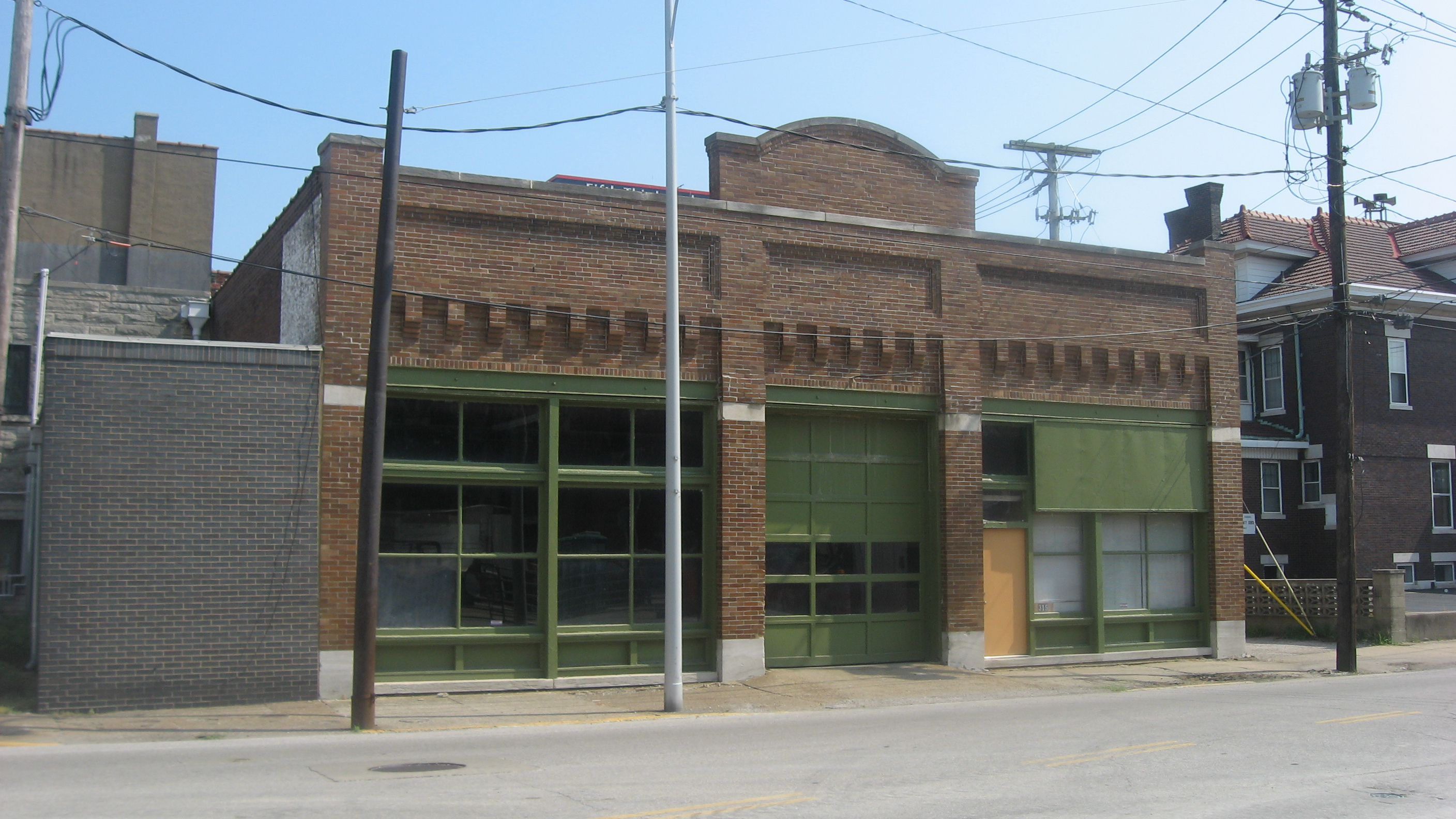 Front of the Fellwock Garage, located at 315 Court Street in Evansville, Indiana, United States. Built in 1908, it is listed on the National Register of Historic Places.